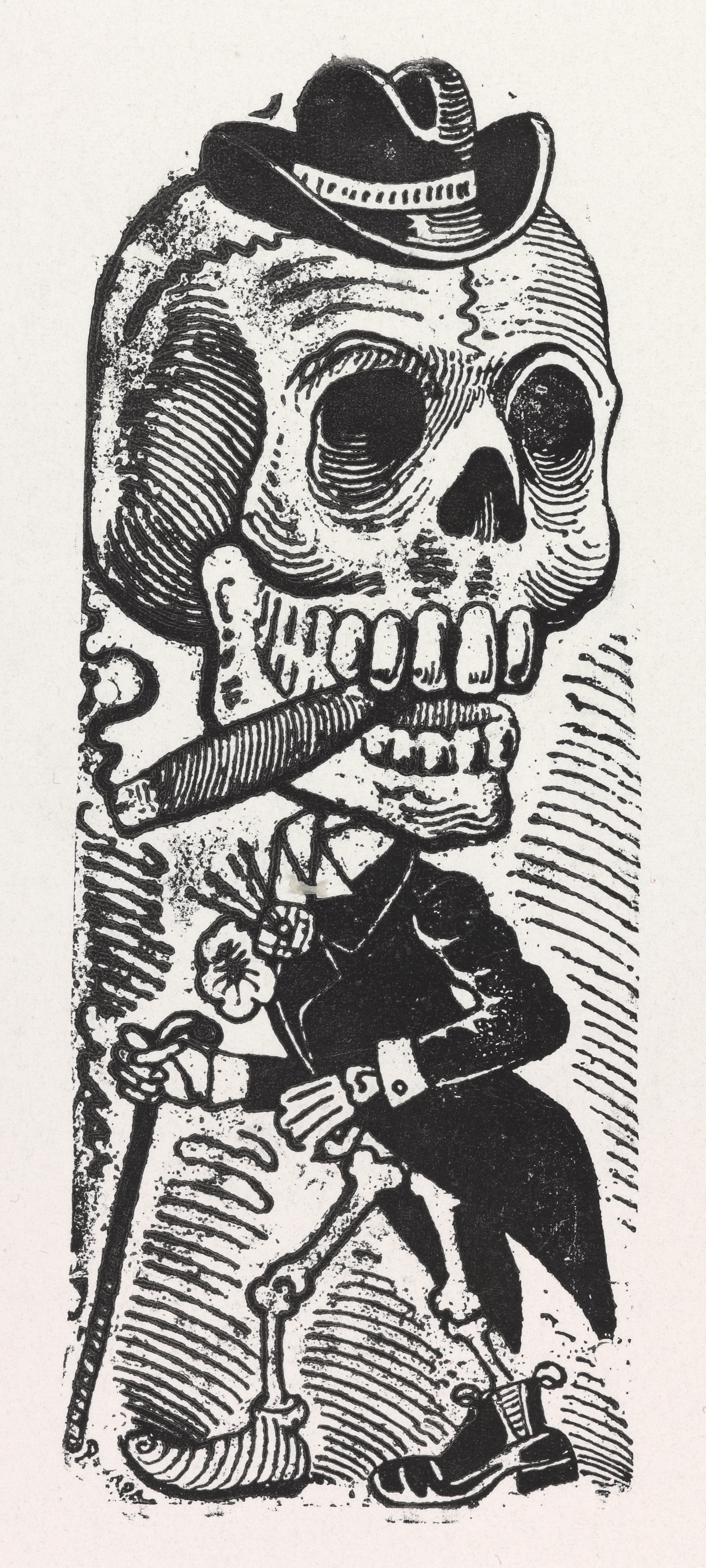 Image by José Guadalupe Posada, Mexican engraver, shows a skeleton wearing a tuxedo and smoking a cigar